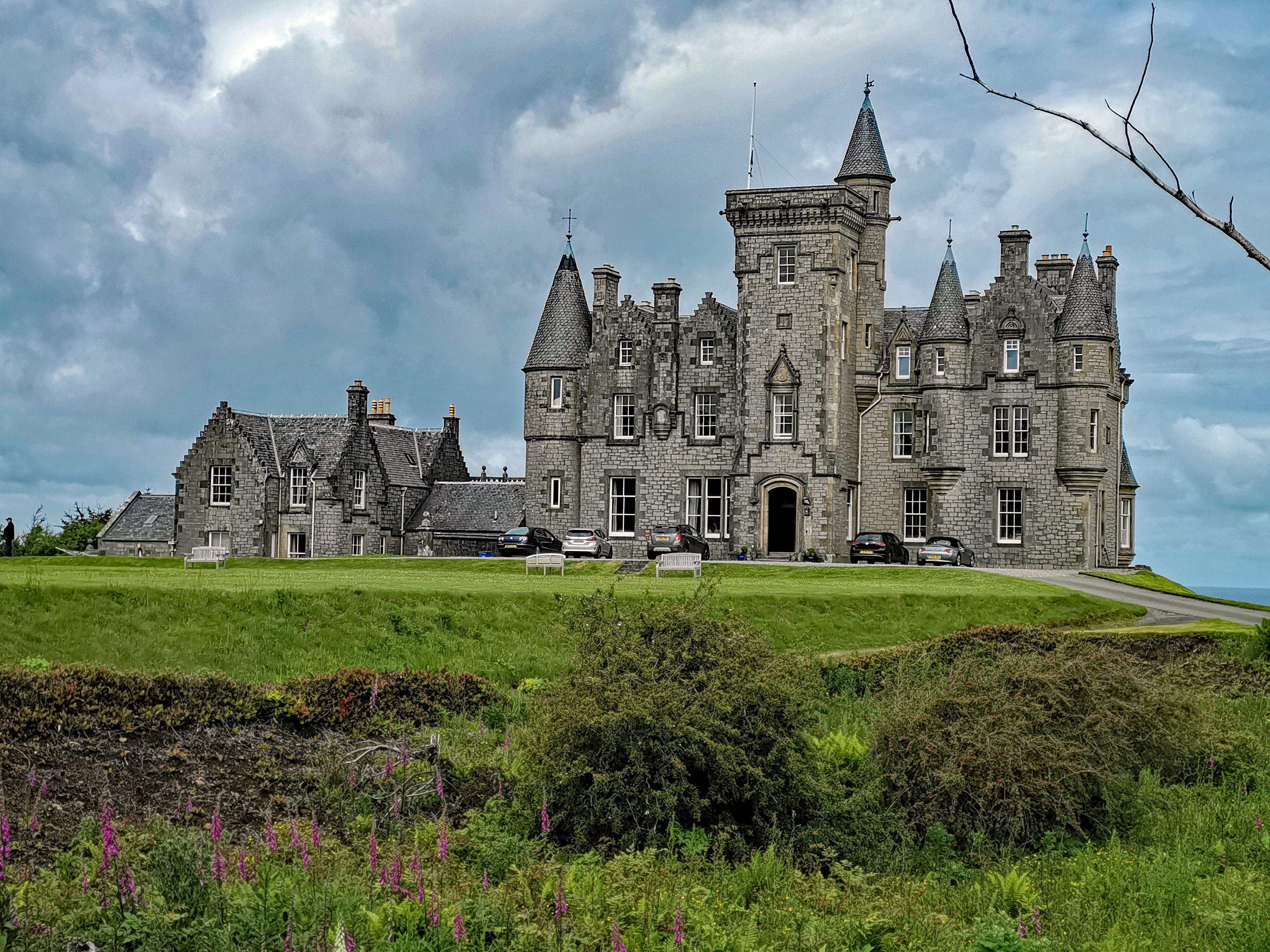 Glengorm Castle (Tobermory, Isle of Mull, Inner Hebrides, Scotland, UK)